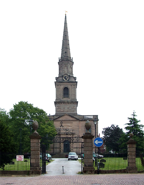 The Church of St. John in the Square, Wolverhampton The church was completed in about 1760. Excellent historical information by Peter Hickman, and some superb old engravings and photographs can be found at